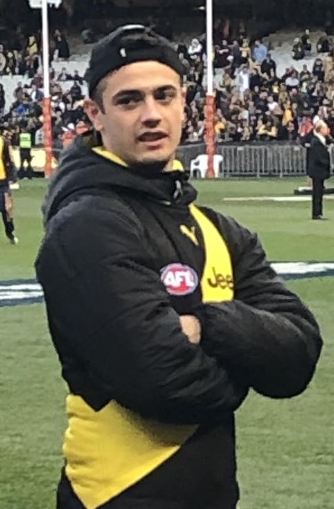 Patrick Naish at the 2019 AFL Grand Final